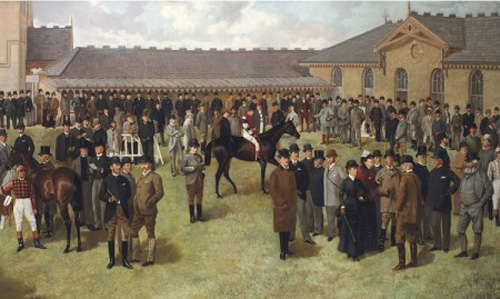 Painting showing various racing characters surrounding the racehorse Paradox.